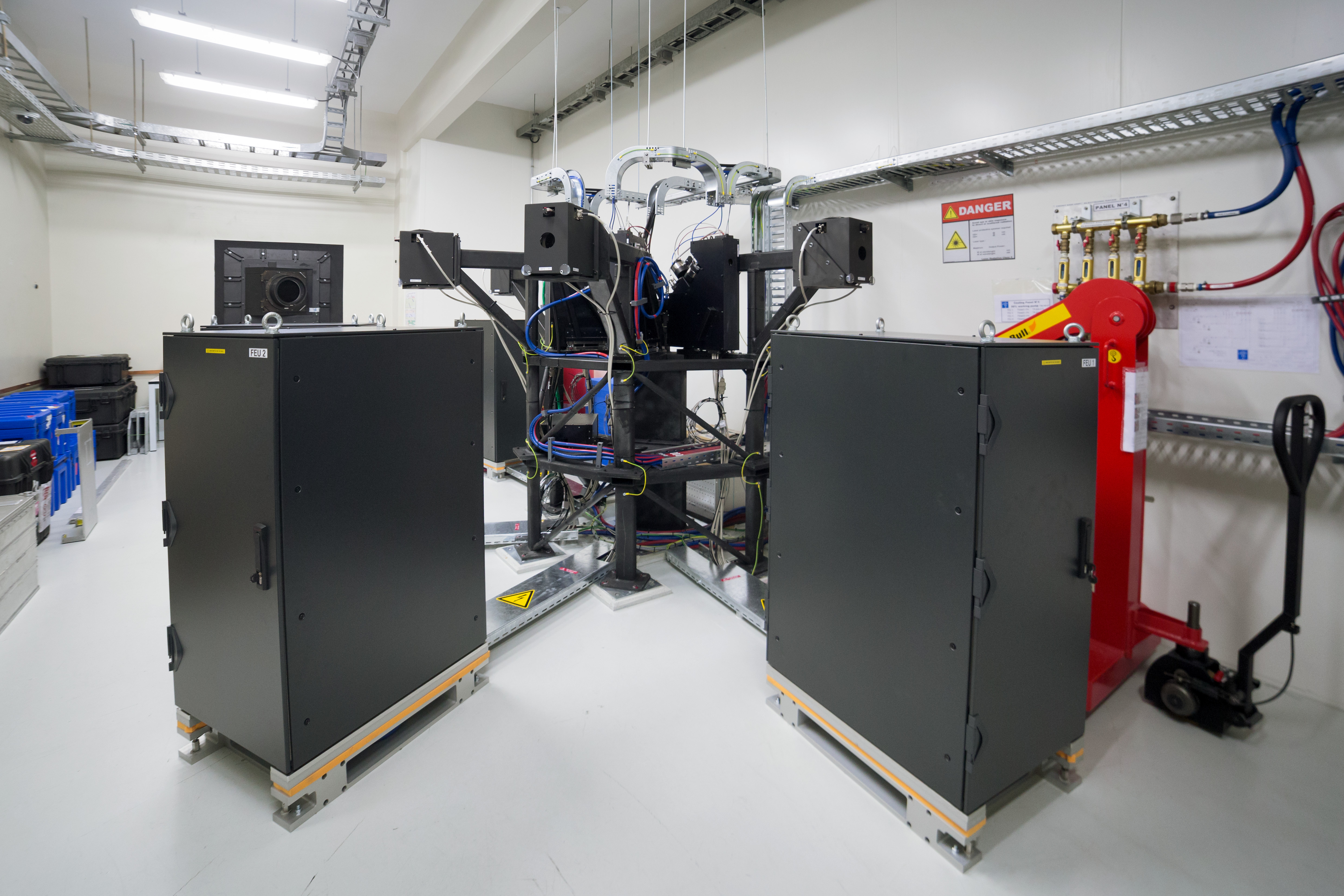 The Echelle SPectrograph for Rocky Exoplanet and Stable Spectroscopic Observations (ESPRESSO) successfully made its first observations in November 2017. Installed on ESO’s Very Large Telescope (VLT) in Chile, ESPRESSO will search for exoplanets with unprecedented precision by looking at the minuscule changes in the properties of light coming from their host stars. For the first time ever, an instrument will be able to sum up the light from all four VLT telescopes and achieve the light collecting power of a 16-metre telescope. This picture shows the room where the light beams coming from the four VLT Unit Telescopes are brought together and fed into fibres, which in turn deliver the light to the spectrograph itself in another room. One of the points where the light enters the room appears at the back of this picture.